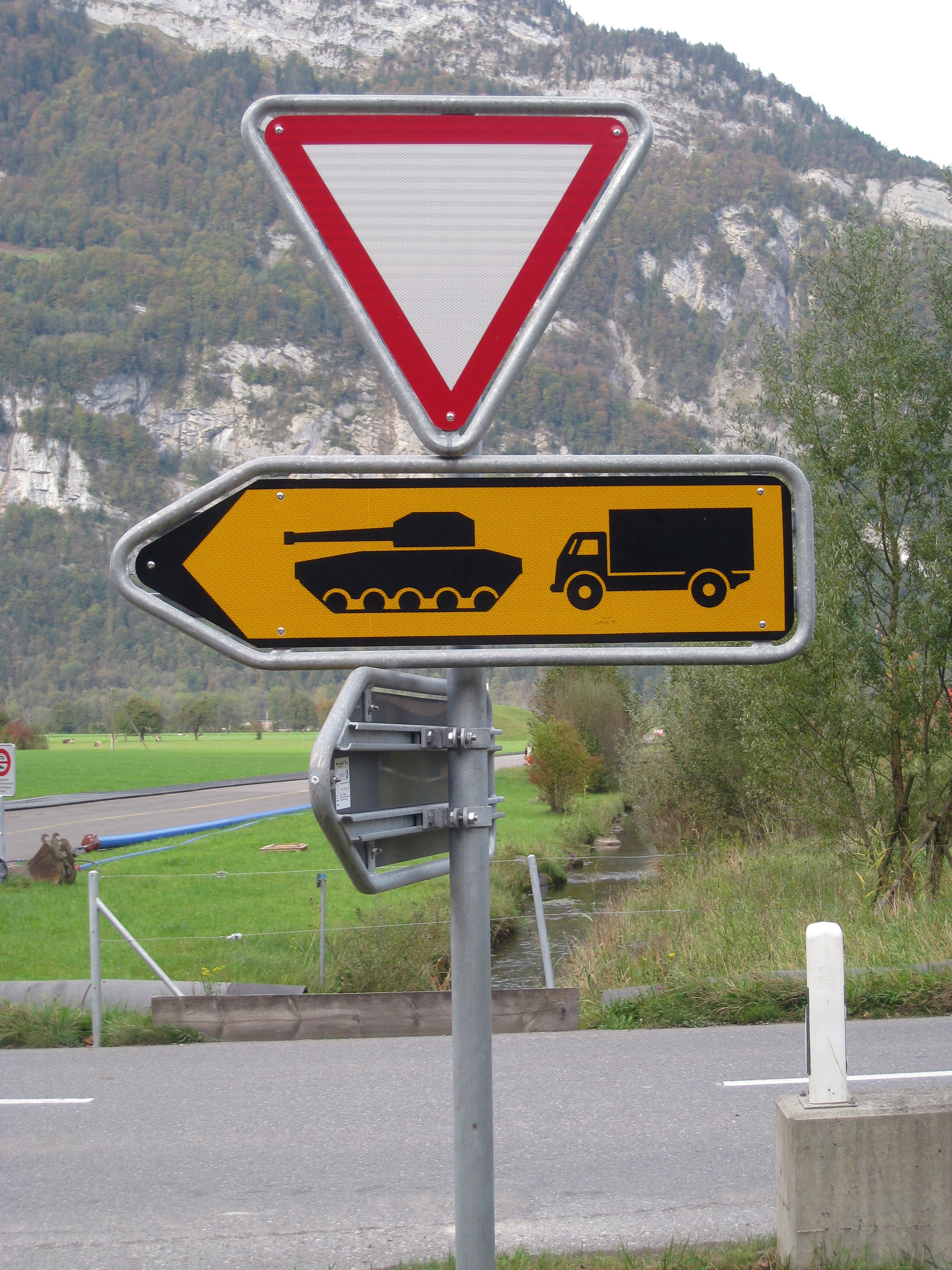 Mollis Airfield Military Signpost